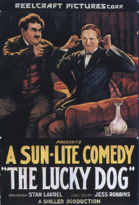 Promotional poster for the Laurel and Hardy film, The Lucky Dog (1919/1921).